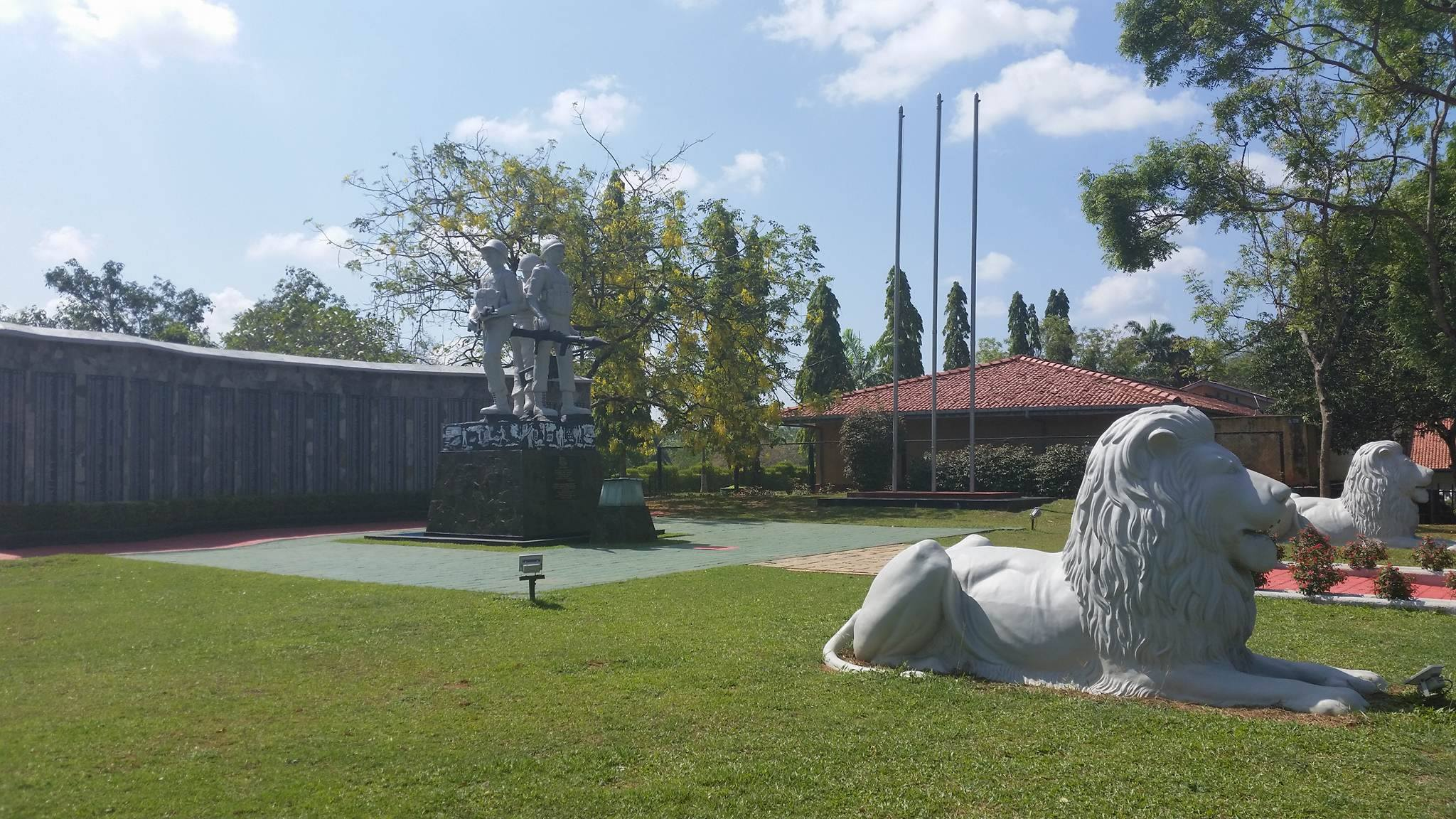 Ambepussa Sri Lanka Sinha Regiment War Memorial. This memorial dedicated to all military personal of sinha regiment killed in action